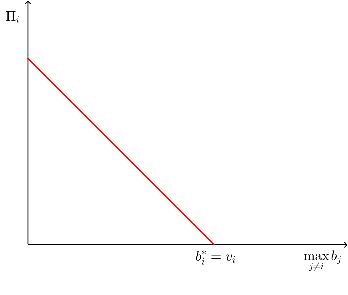 Second price auction 1 (truthful bidding)